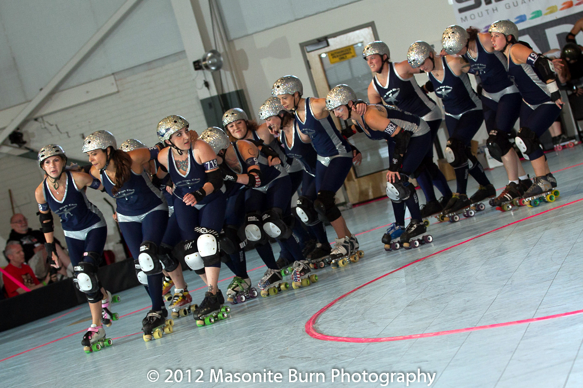 The Denver Roller Dolls skate out in advance of the final of "The Bay of Reckoning", the 2012 WFTDA West Region Playoffs.